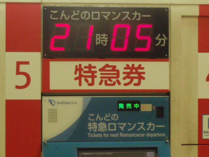 Closeup of Romancecar ticket vender machine at Machida Sta.